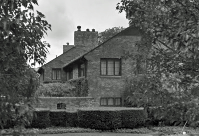 Hugh T. Keyes house, Grosse Pointe, designed in 1925 for Jerome E. Keane